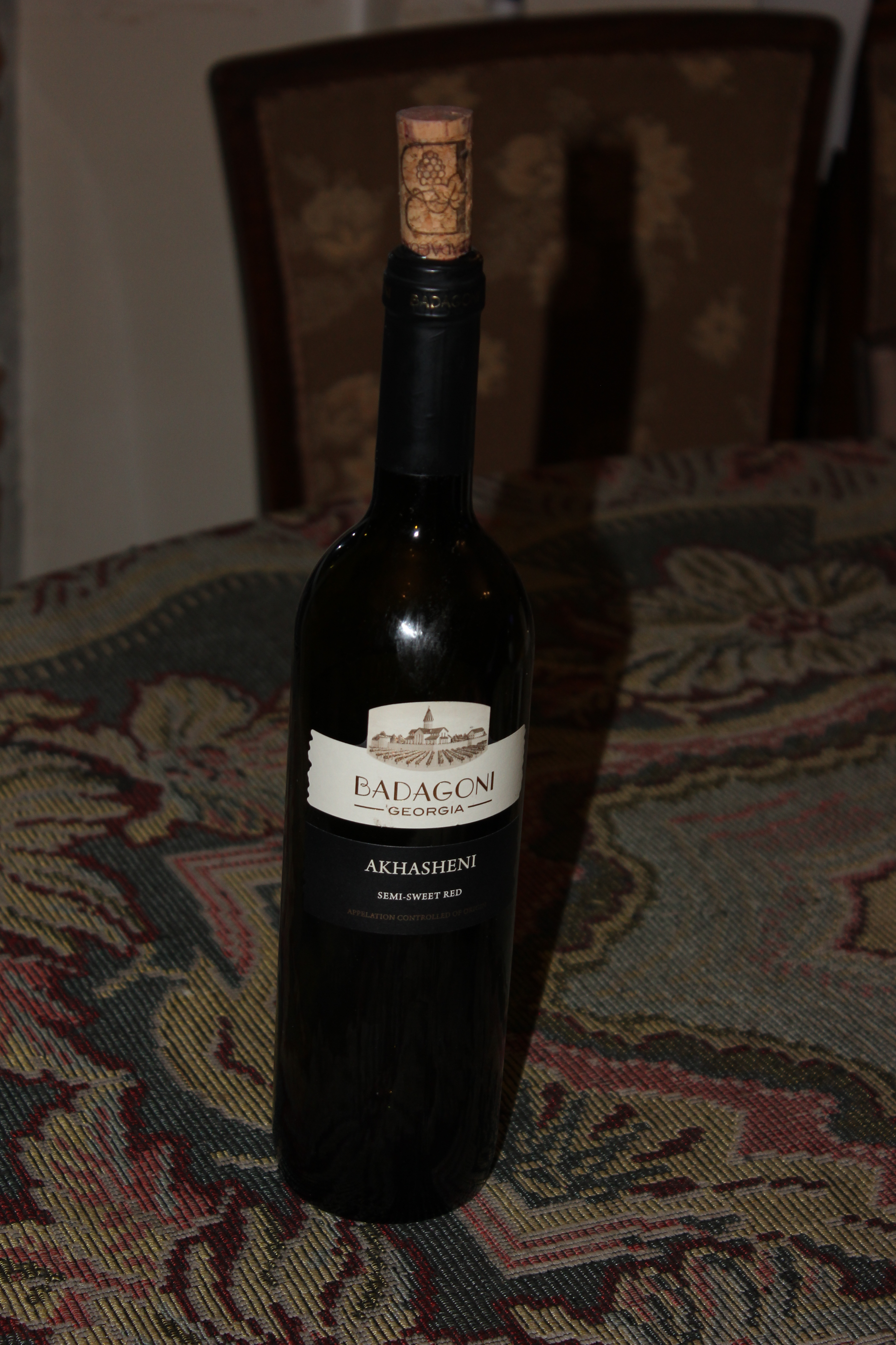 Georgian red wine of the Badaconi Company